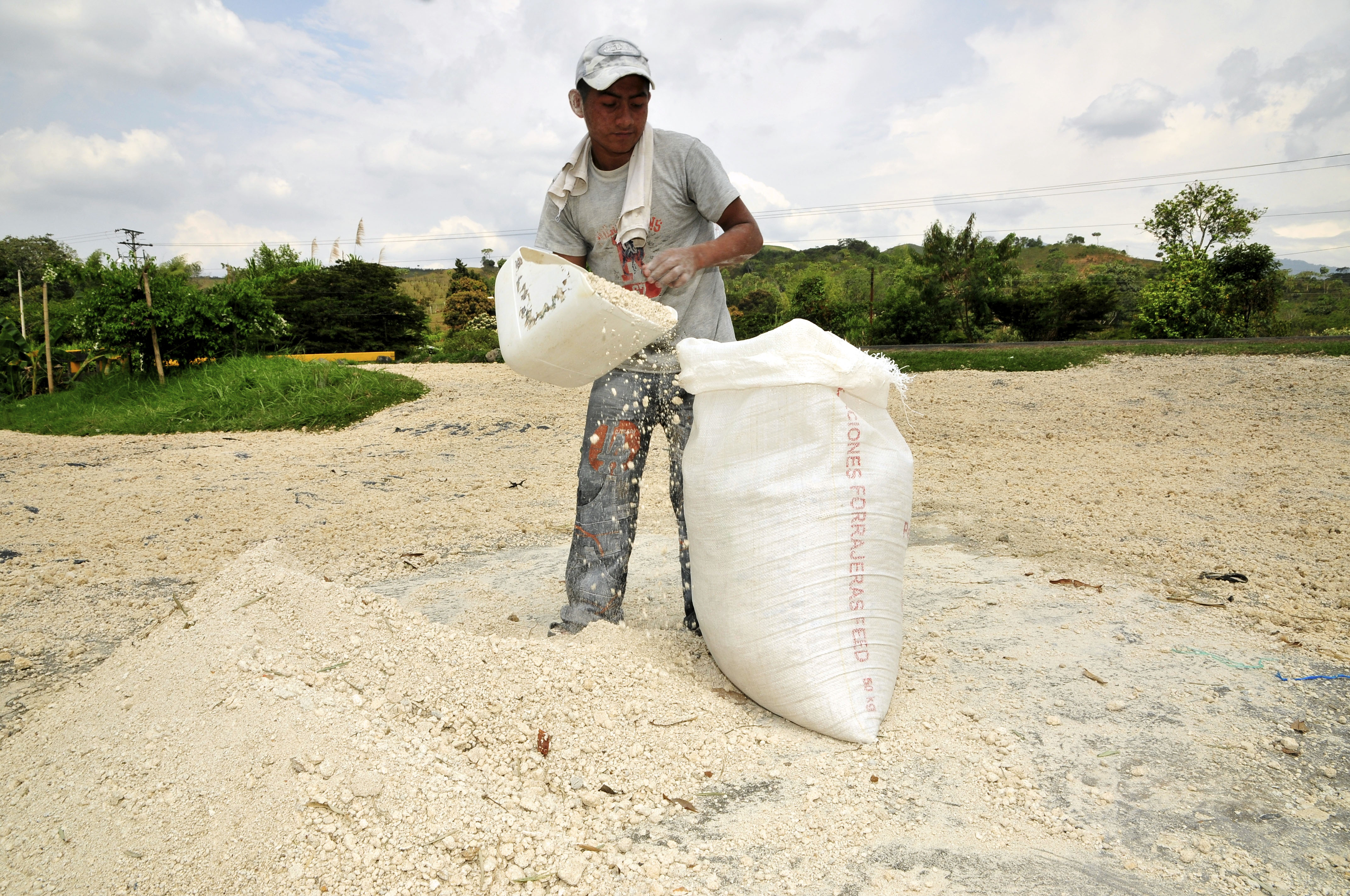 Pic by Neil Palmer (CIAT). Cassava starch processing in Colombia's southwestern Cauca department.